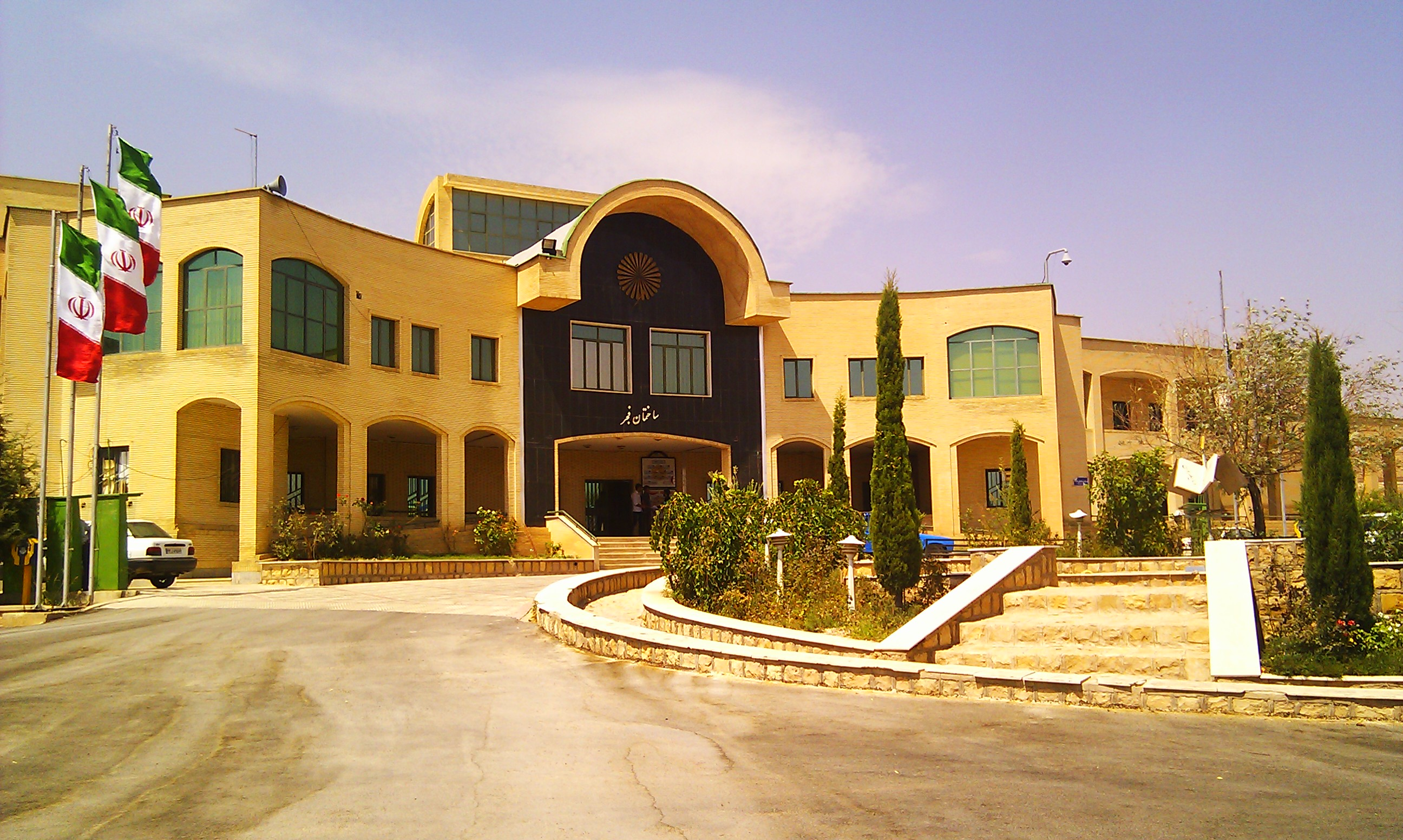 shiraz payam-e-noor university